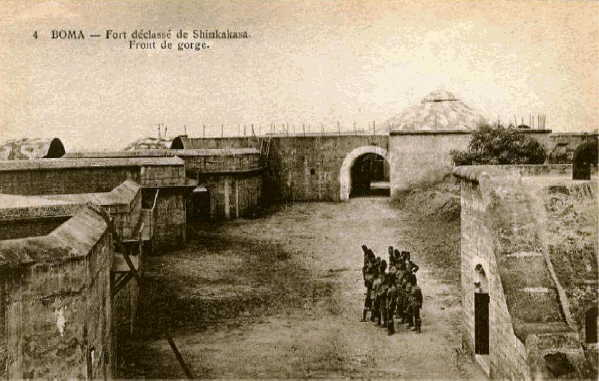 Fort de Shinkakasa in Boma, Democratic Republic of the Congo